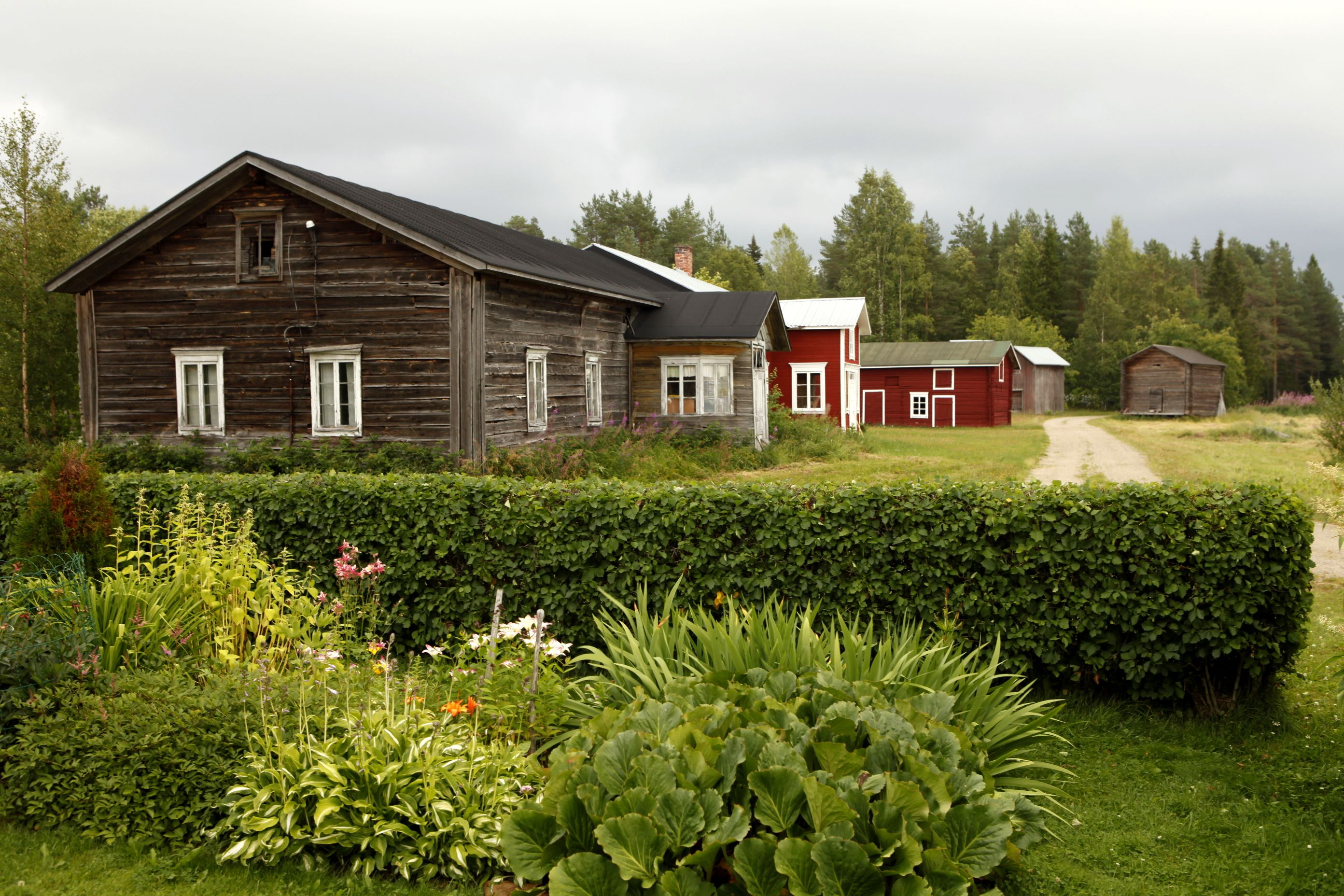 Maalismaa village, Oulu, Northern Finland